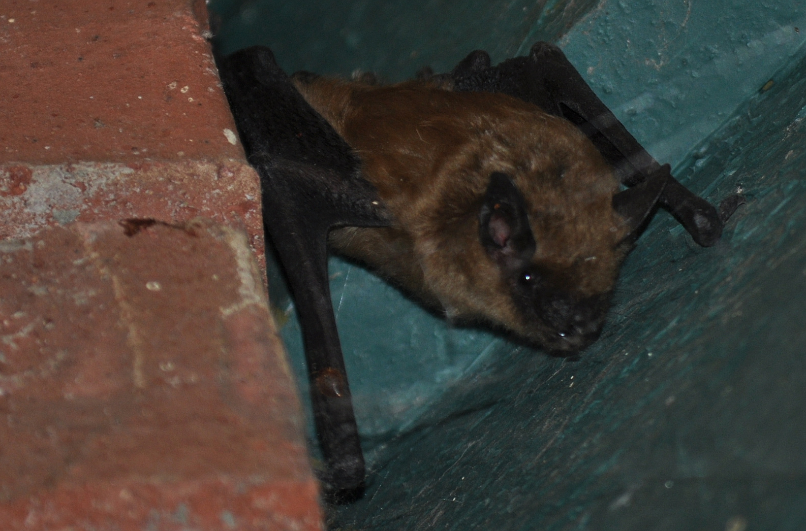 A California Myotis (Myotis californicus). This one found a hole under the roof of my house. Hopefully it will make a new home there, but it could just be staying overnight.